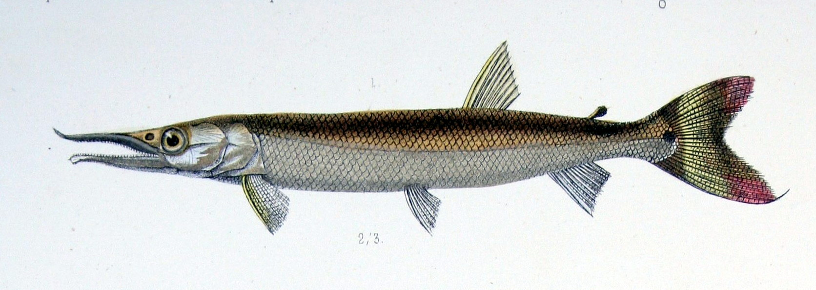 From top to bottom: Xiphostoma oseryi = Boulengerella cuvieri